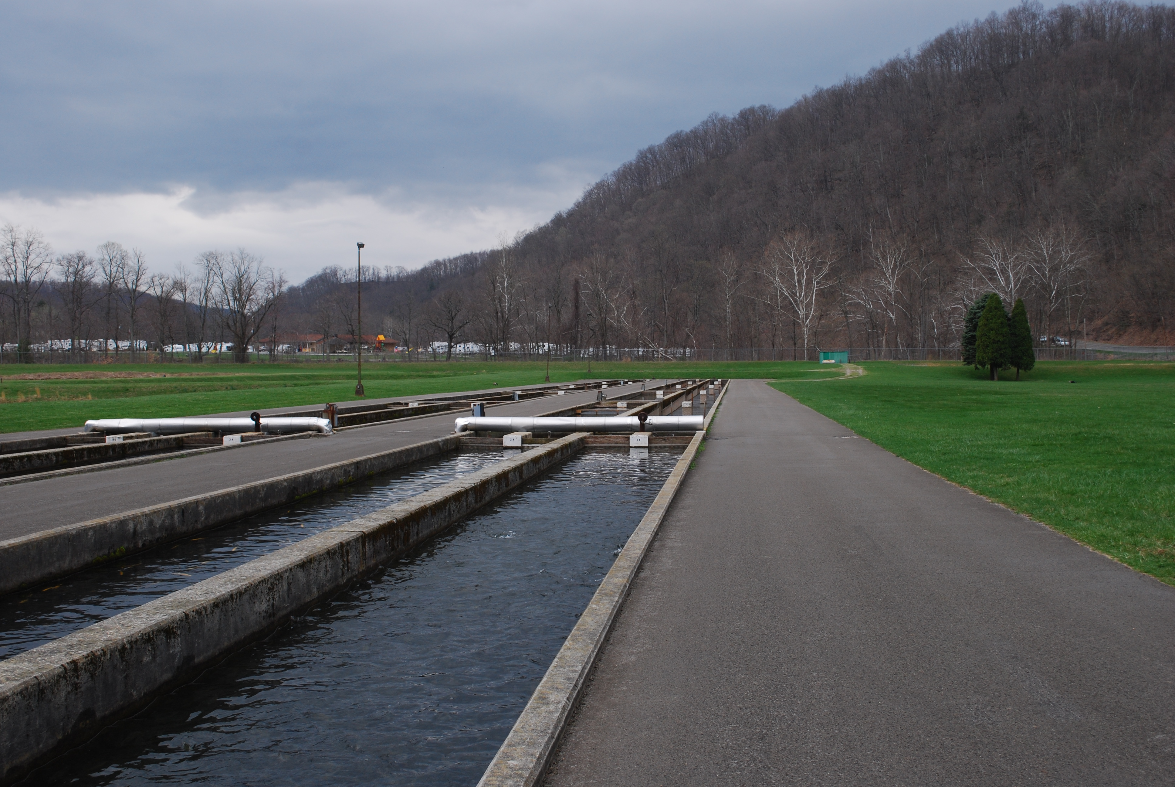 West Virginia Division of Natural Resources's Bowden Fish Hatchery at Bowden, West Virginia.